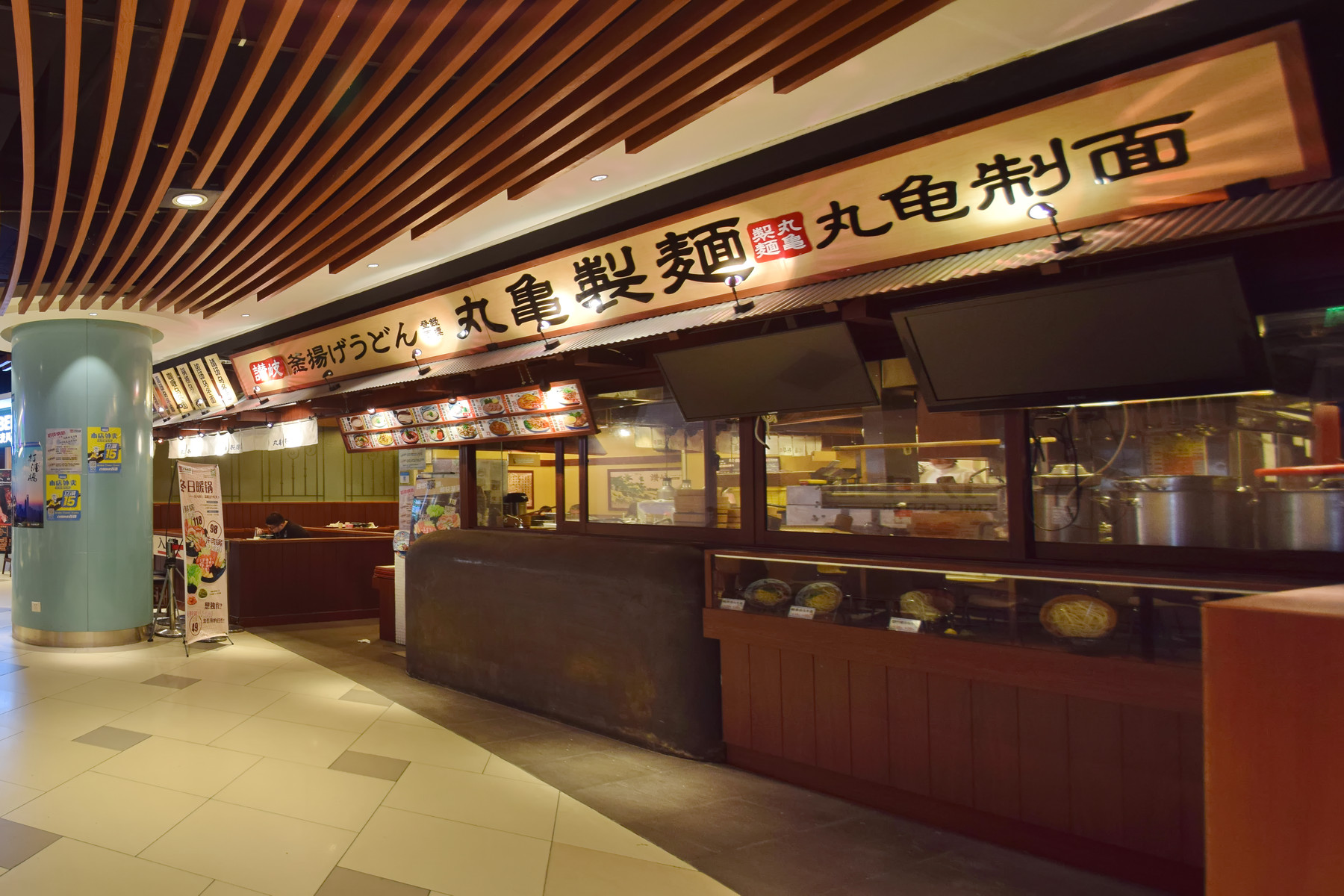 Marugame Seimen @ SML Center, Shanghai